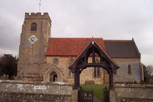 St Nicholas' parish church, Radford Semele, Warwickshire, seen from the south